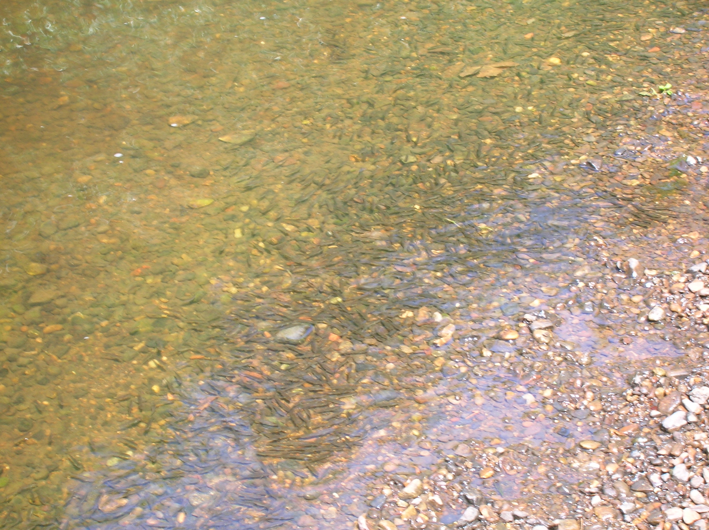 Minnows (Phoxinus phoxinus) shoaling in the Lugton Water, North Ayrshire, Scotland.